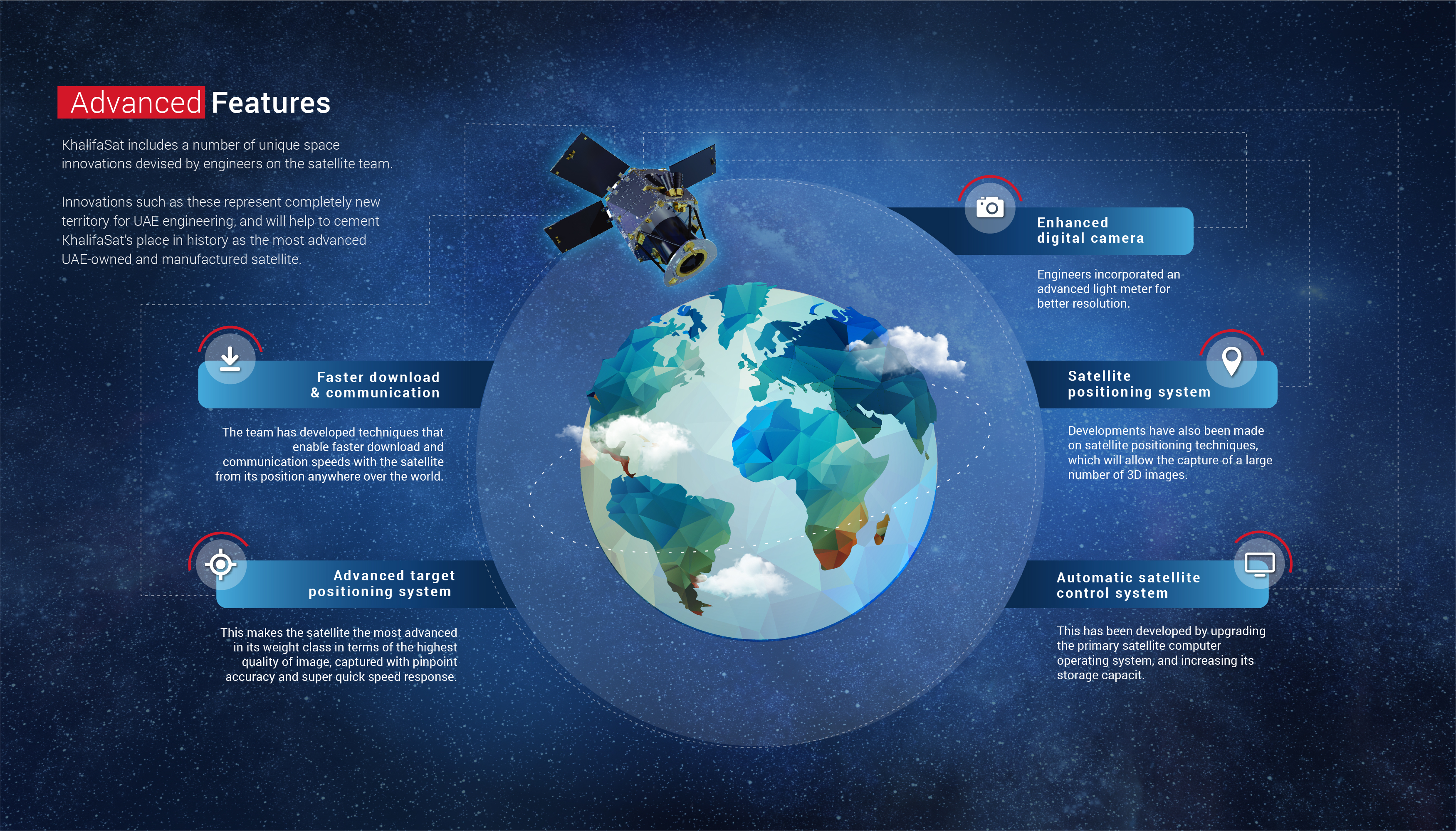 The infograph explains the advanced features of the Earth Observation Satellite, KhalifaSat